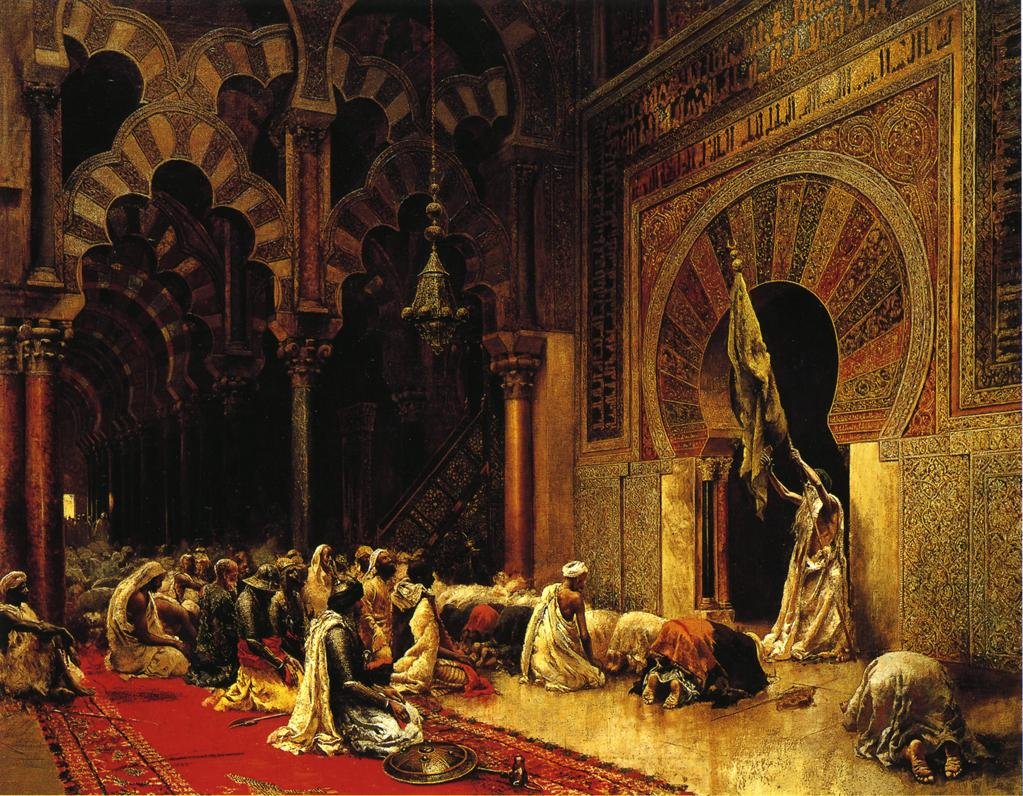 Interior of the Mosque at Cordova